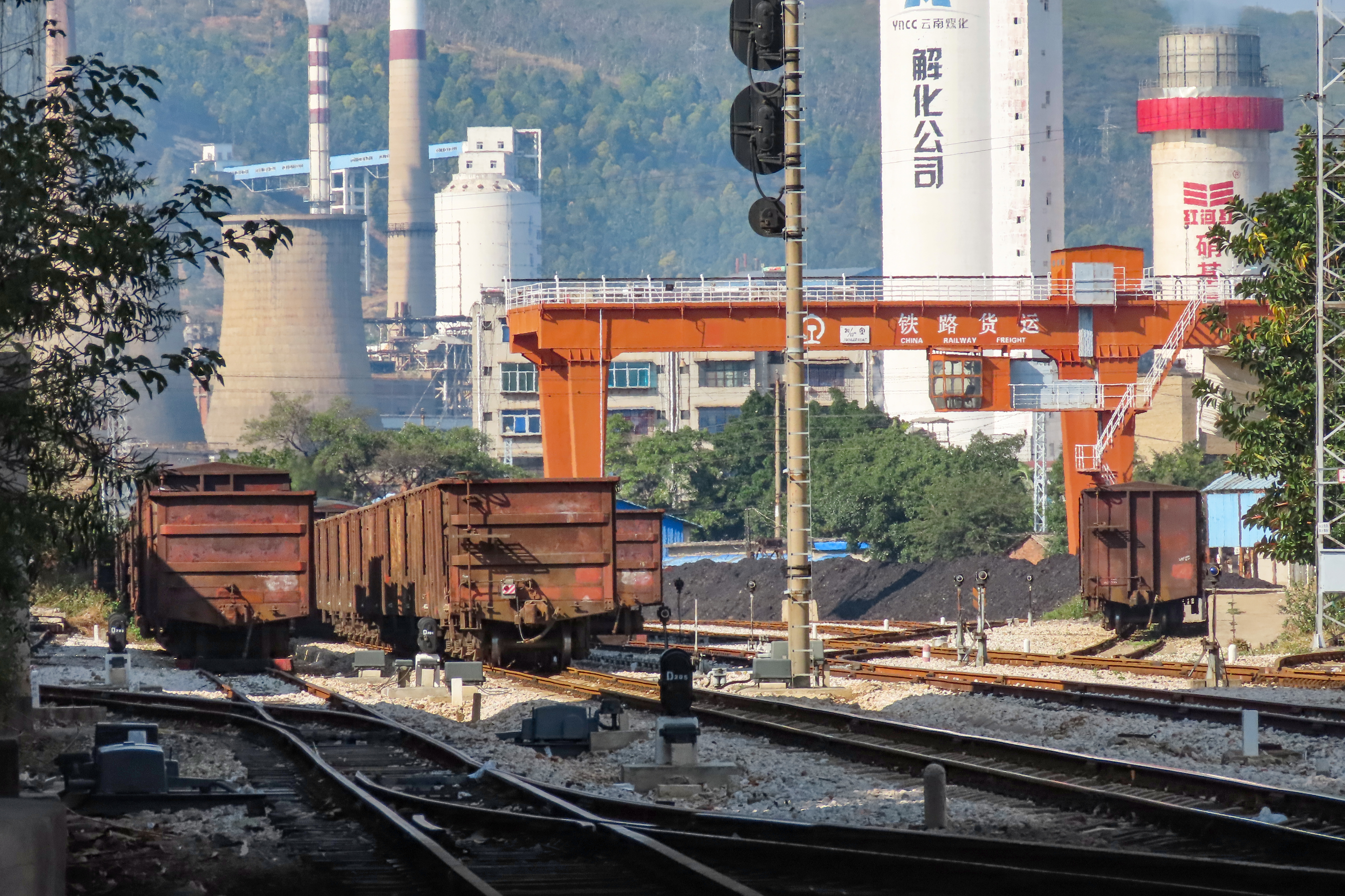 A northbound freight train just passed by.